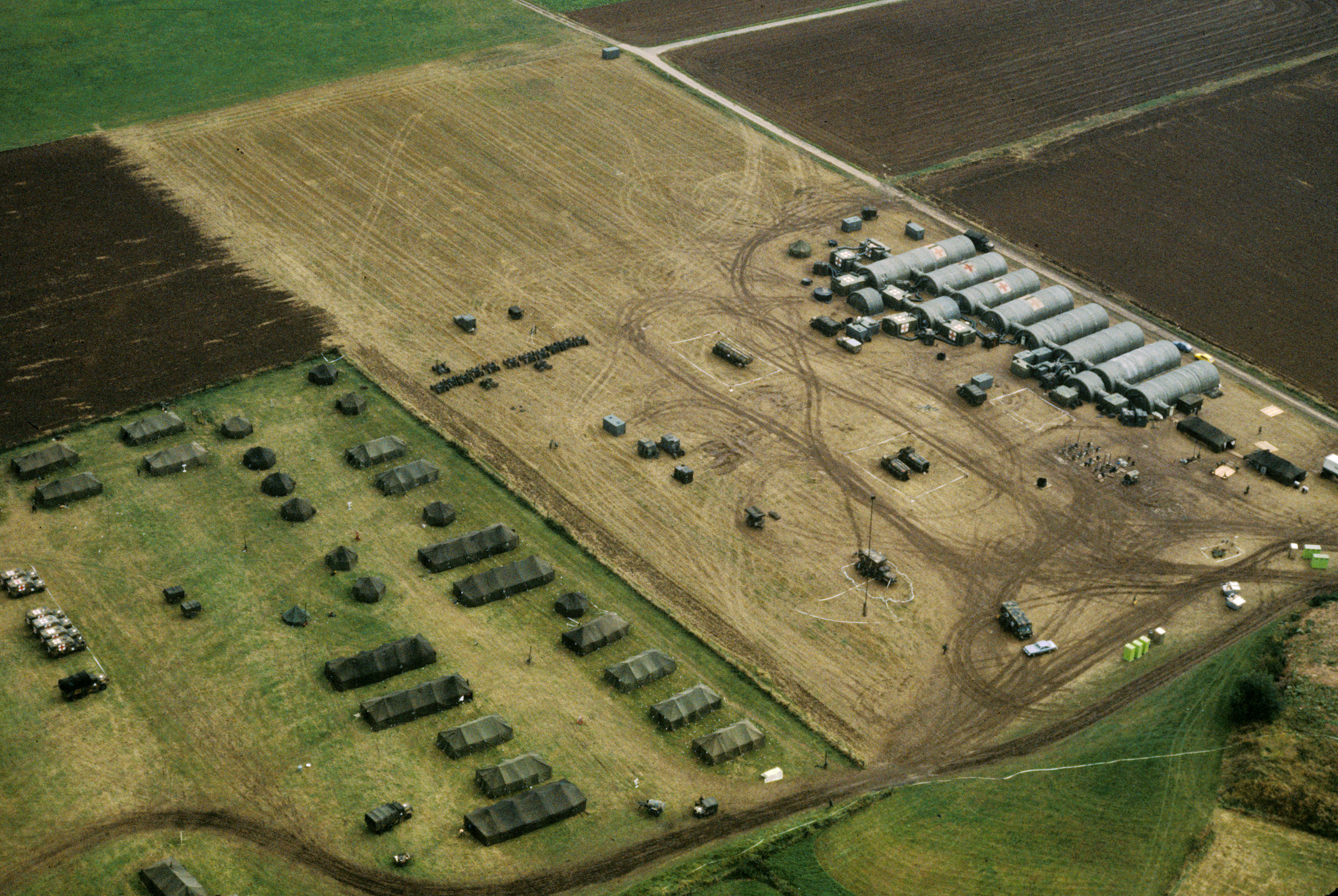 An aerial view of the 32nd Combat Support Hospital in operation during Exercise REFORGER '83 in West Germany